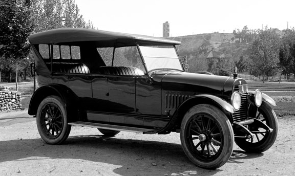 1919 Hudson Phantom Commercial photo for advertisement, published 1919. URL